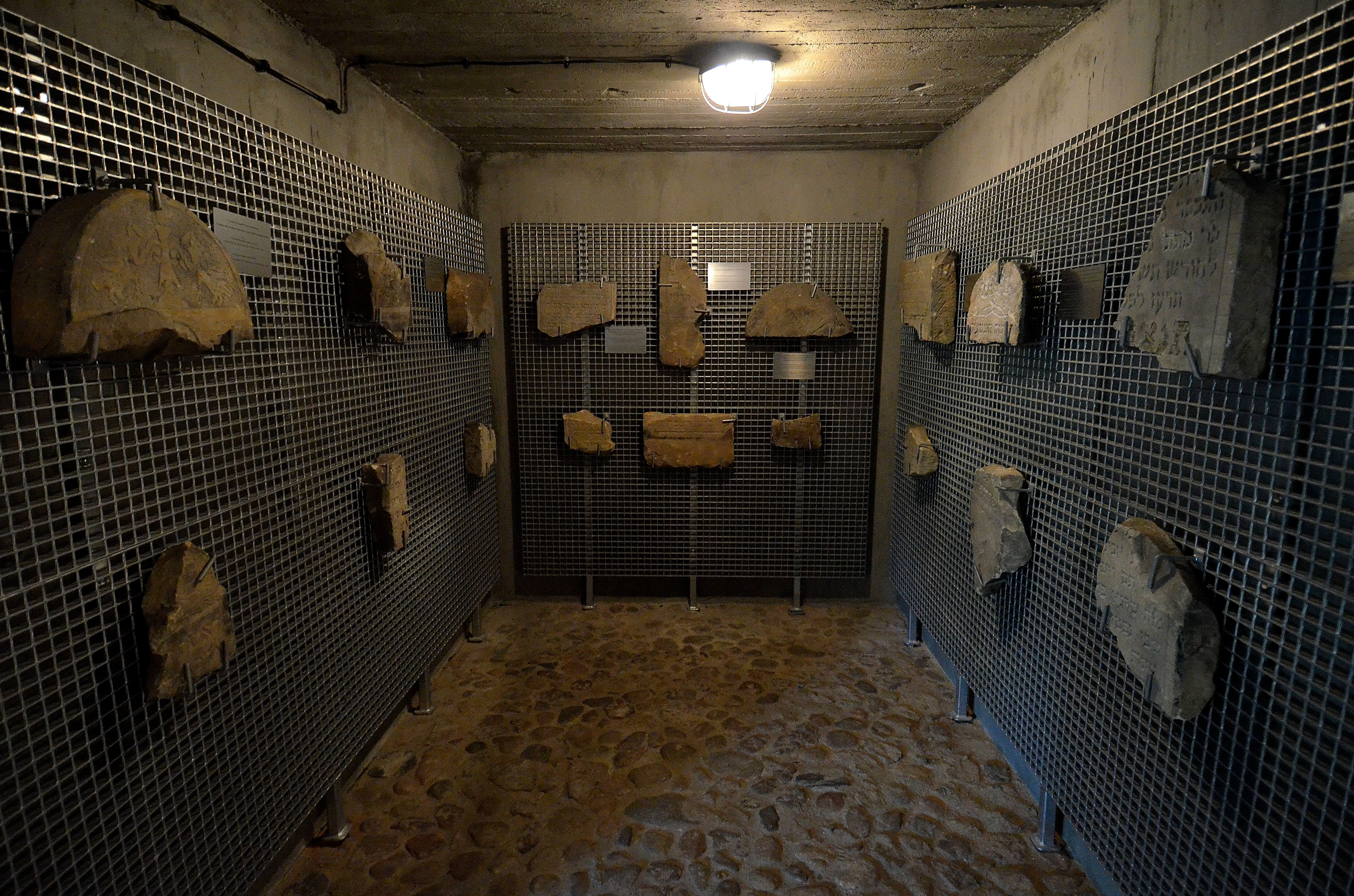 Museum of Fight and Martyrdom in Treblinka. Pieces of macevas (Jewish tombstones) which probably come from the cemetery in Kosów Lacki. They were found on the Black Road which connected Treblinka I and Treblinka II camps having been used by the Germans as construction material